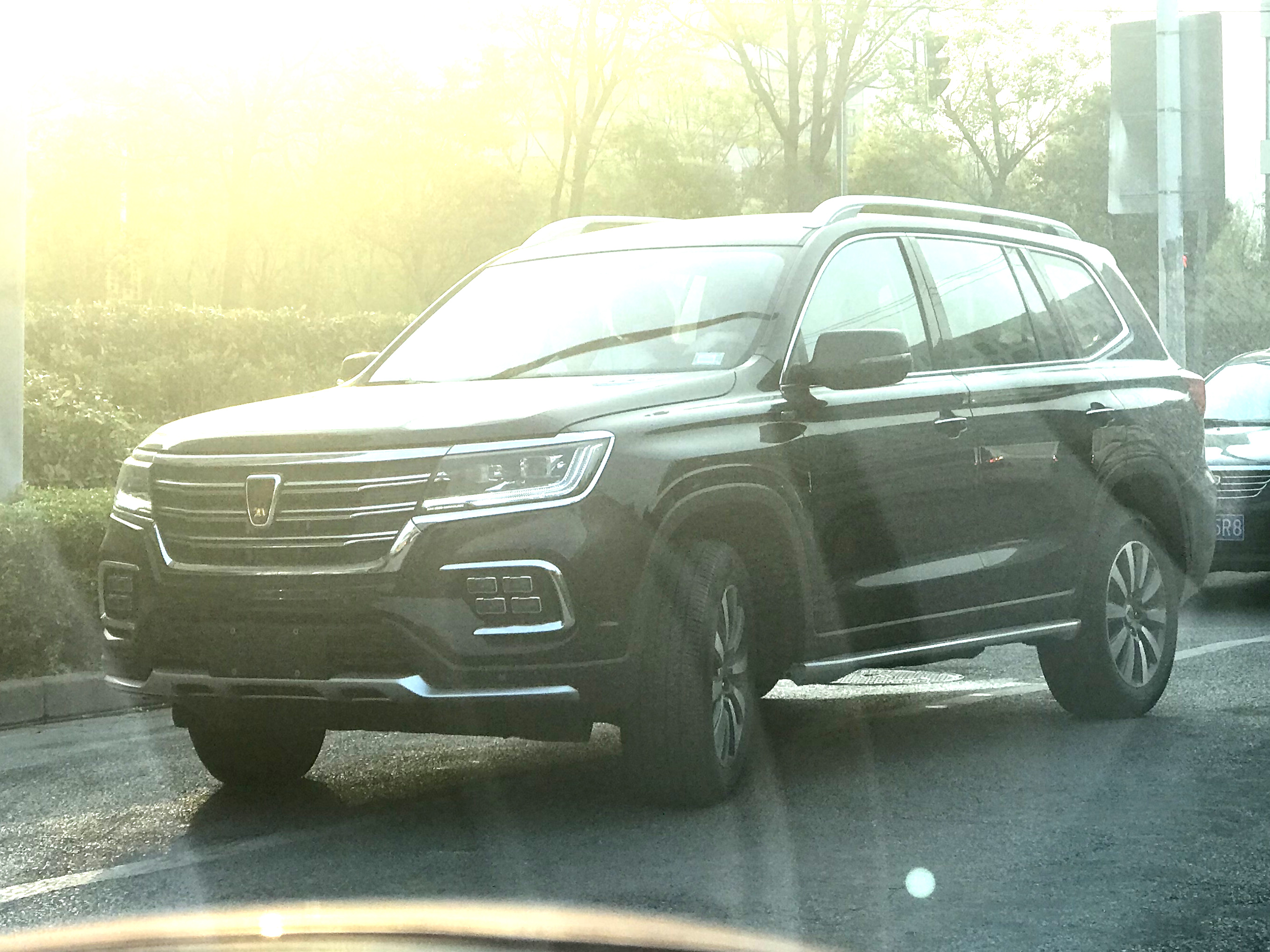 Roewe RX8